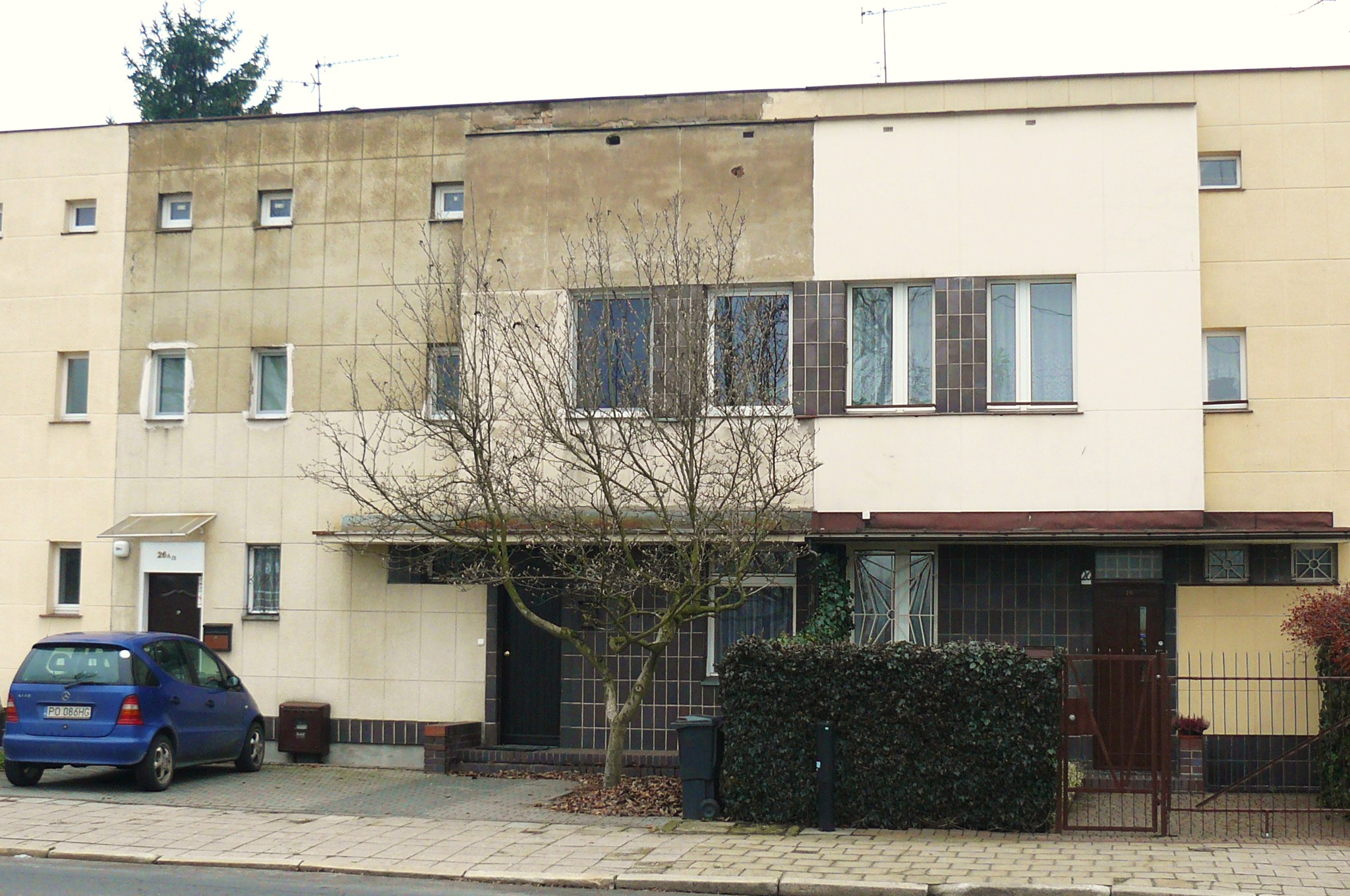 Poznan, Promienista Street. Modern Houses 1937-1939.